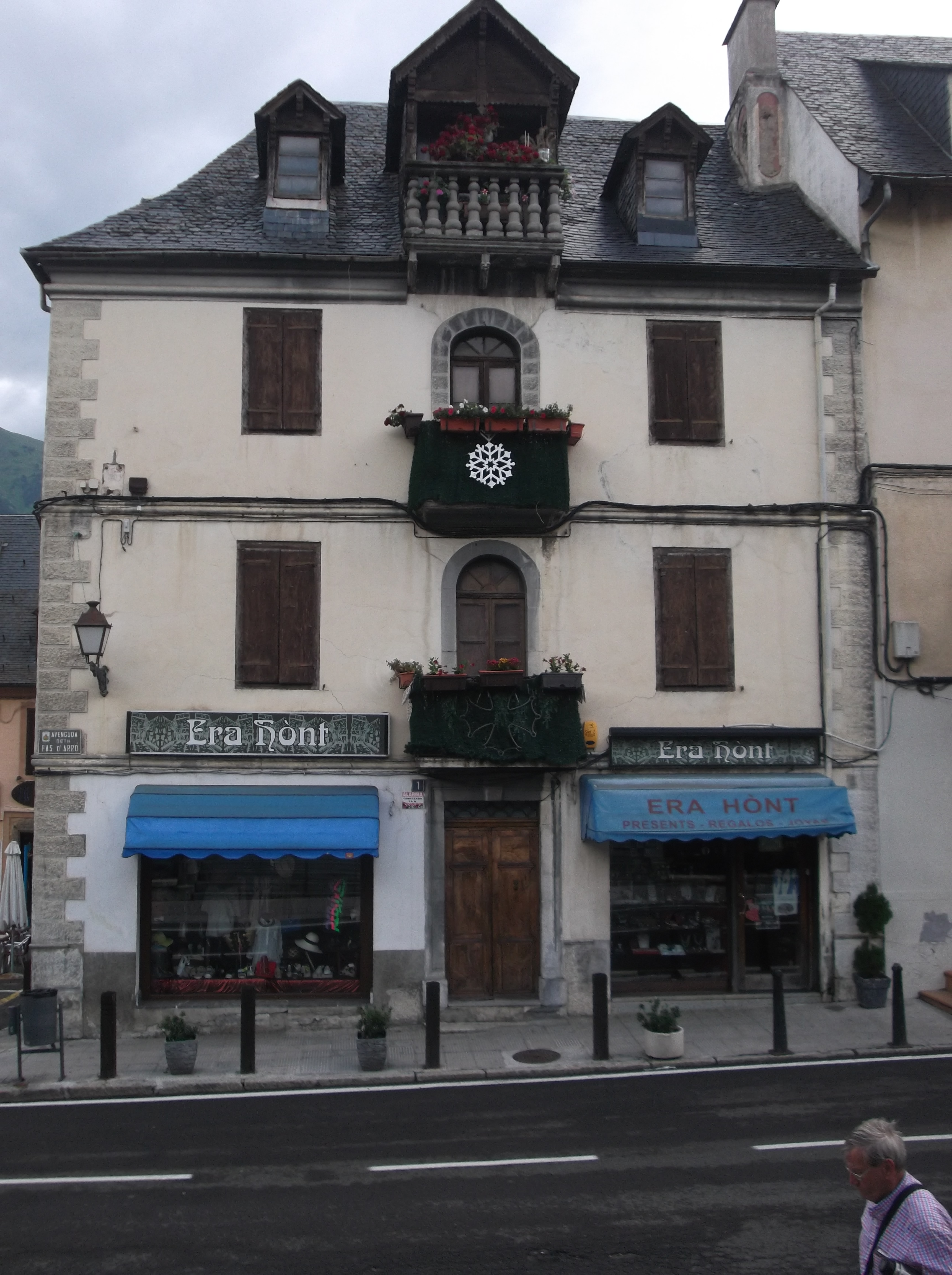 A picture of a store with its name in Aranese Occitan (Vielha, Val d'Aran)